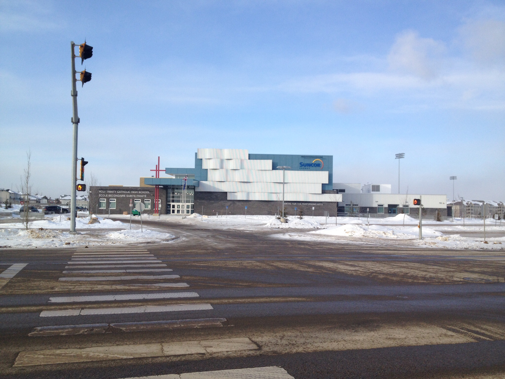 A snapshot of the school as of February, 2014.